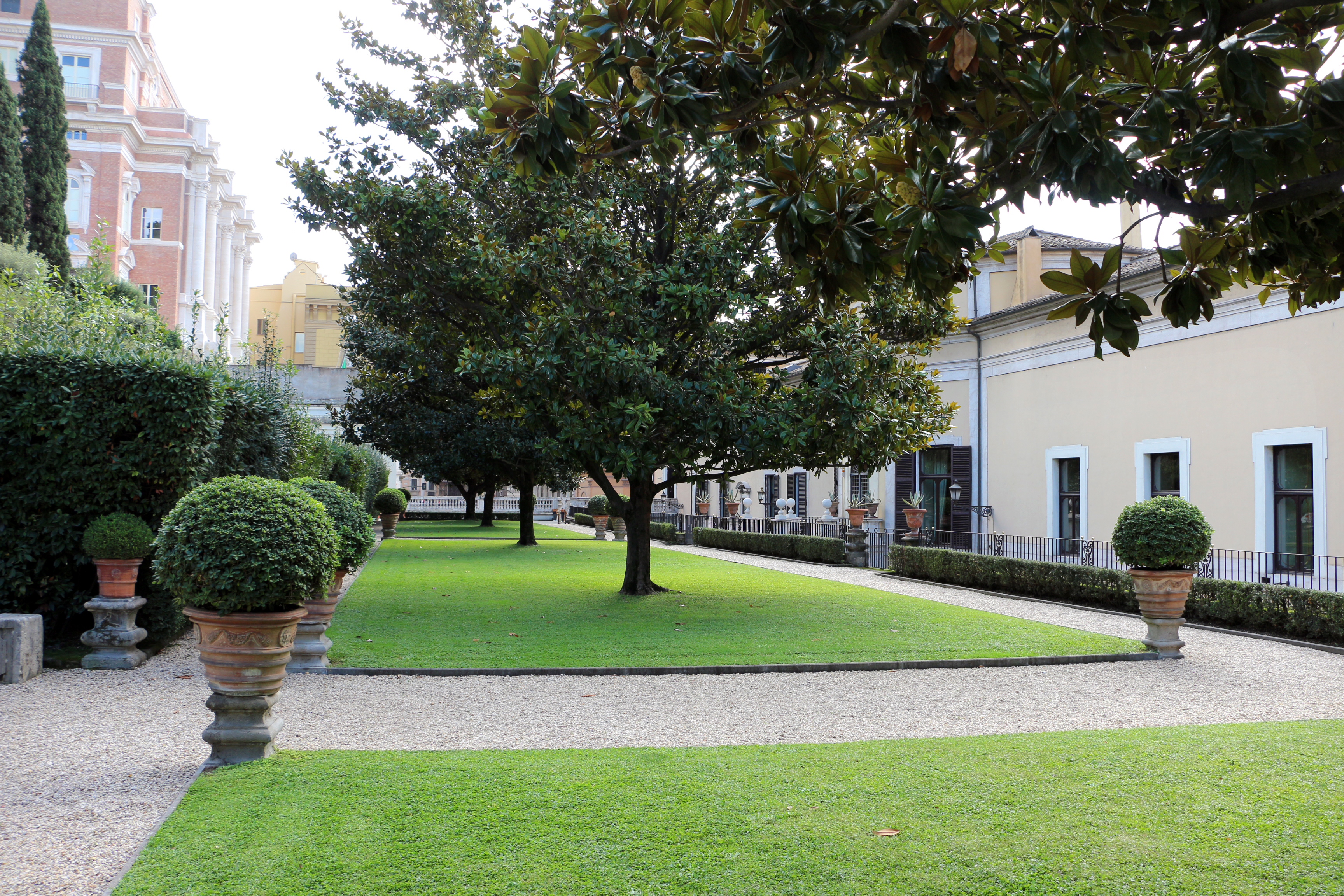 Palazzo Colonna (Rome) - Gardens